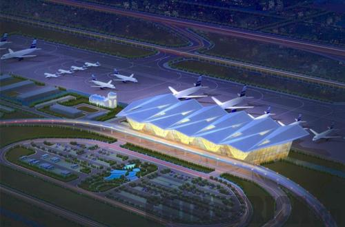 New SMKIA impression